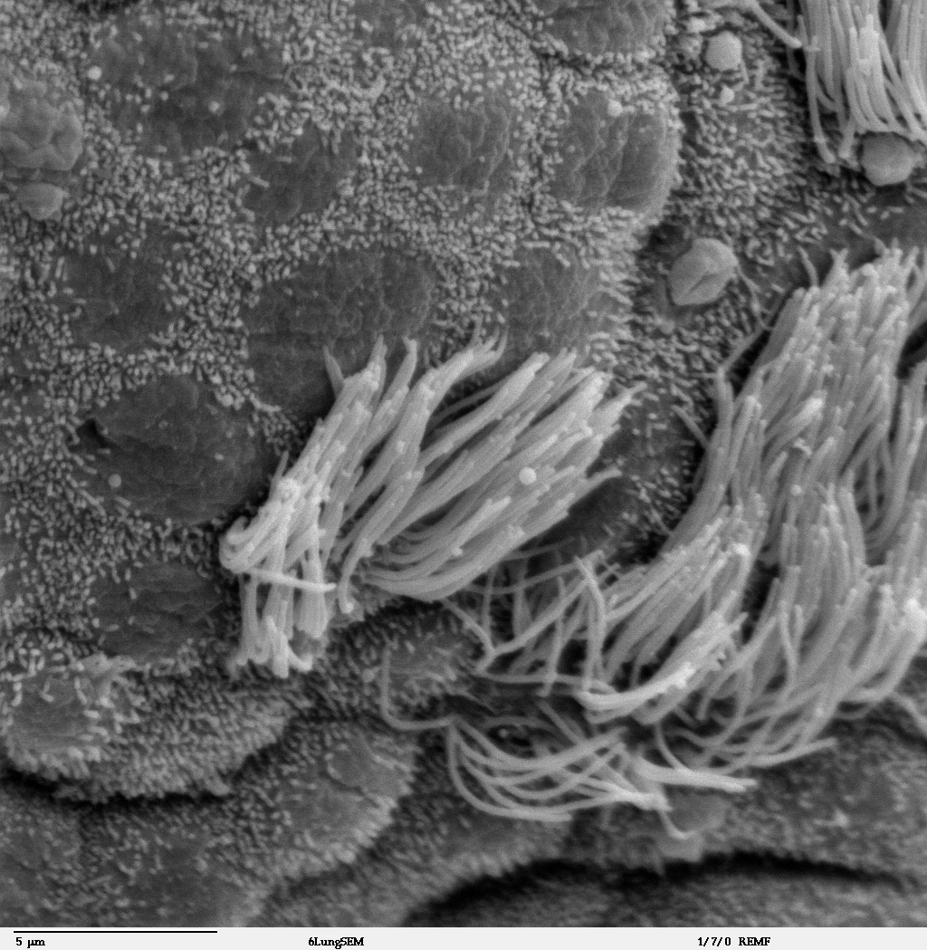 Scanning electron microscope image of bronchiolar epithelium, which consists of ciliated and non-ciliated bronchiolar cells. Note the difference in size between the cilia and the microvilla (on non-ciliated cell surface). Zeiss DSM 962 SEM